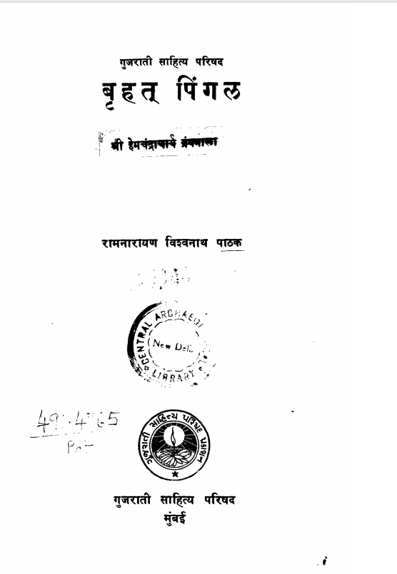 Title page of 'Brihatpingal', a book written by Indian author Ramnarayan Pathak. It's a scholarly work on Indian poetic meters.